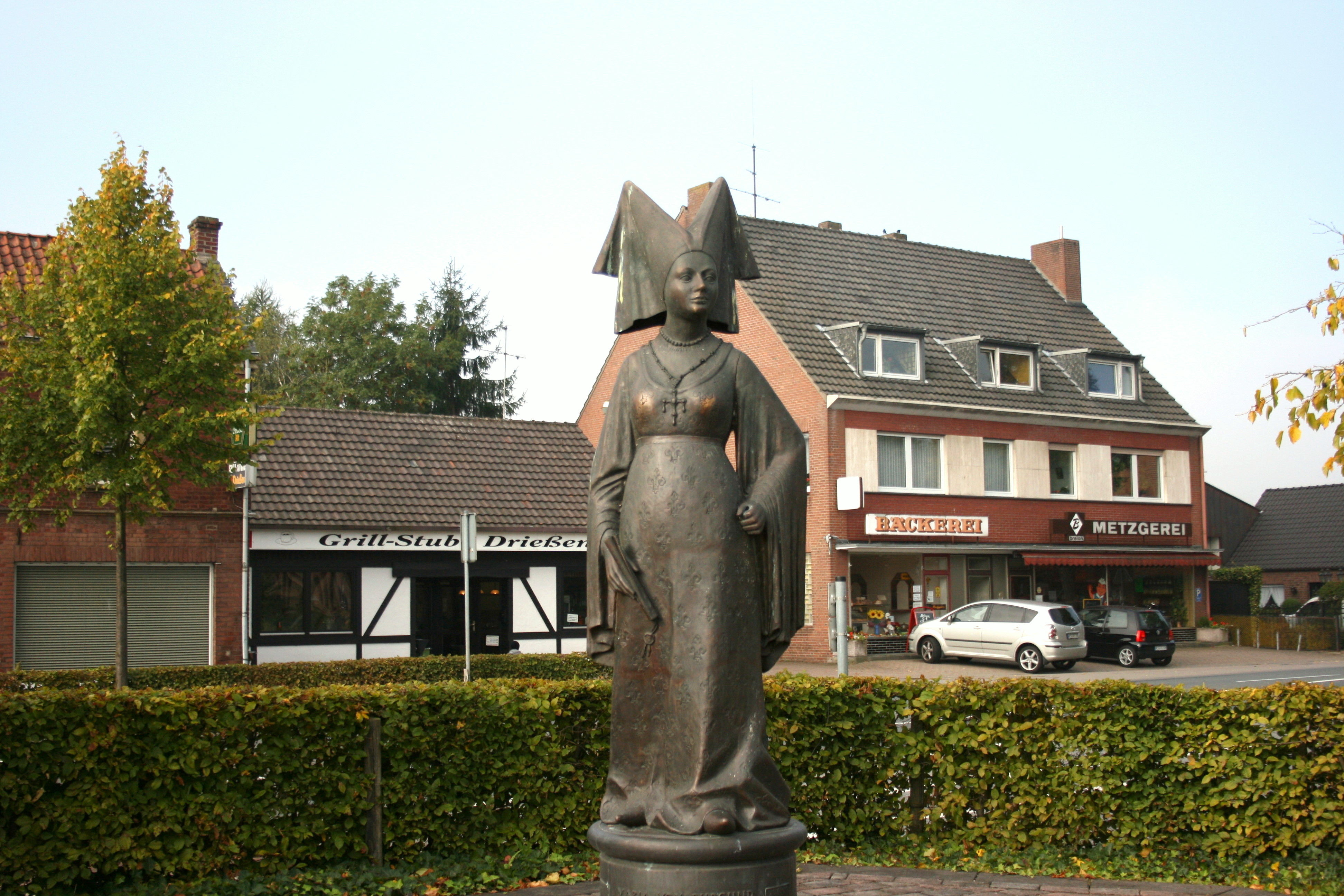 Memorial for Mary of Burgundy who founded the former Bridgettine monastery in Xanten-Marienbaum